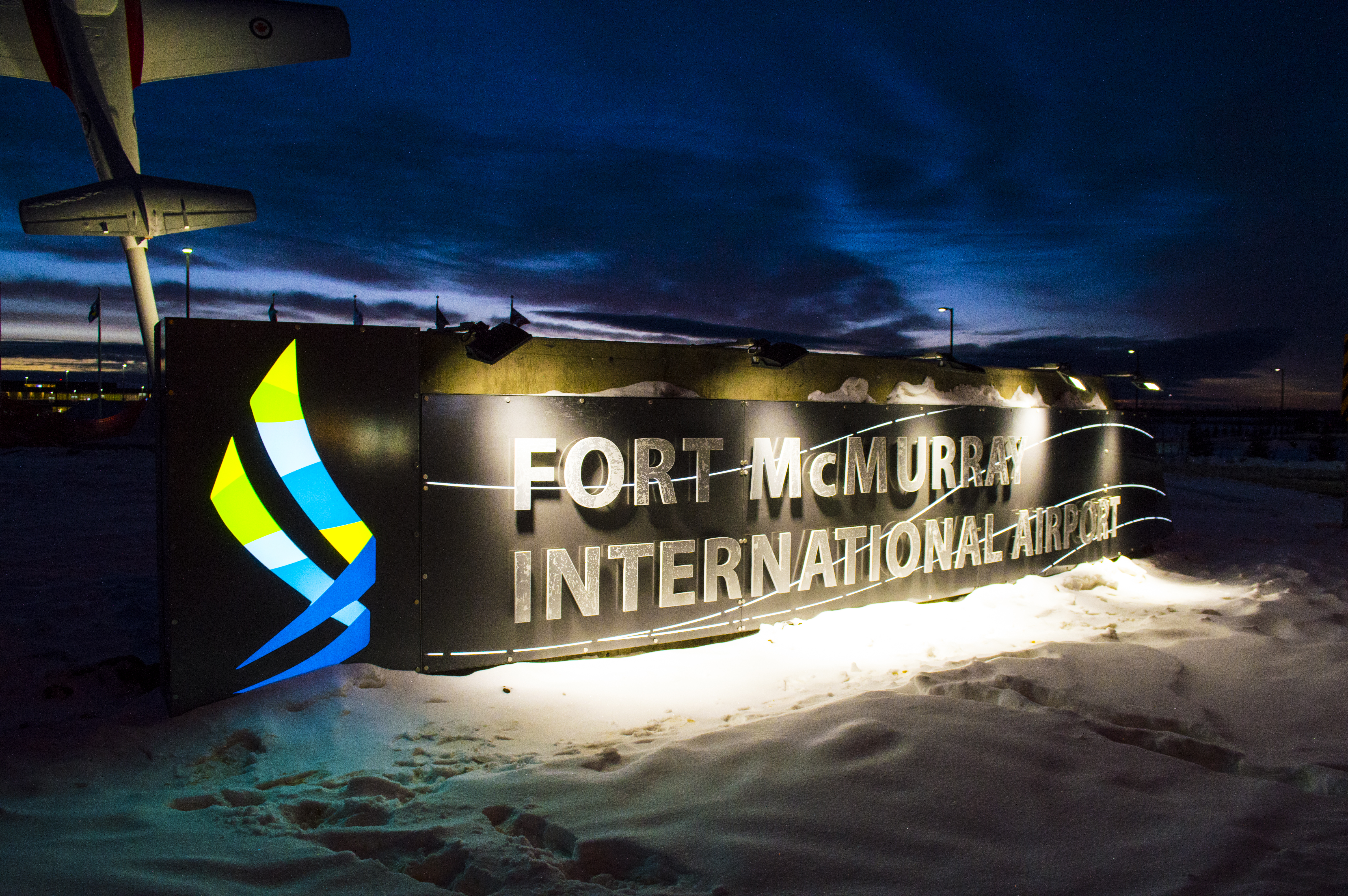 The Fort McMurray International Airport welcome signs include replicas of the famous Canadian Snowbirds aircraft.